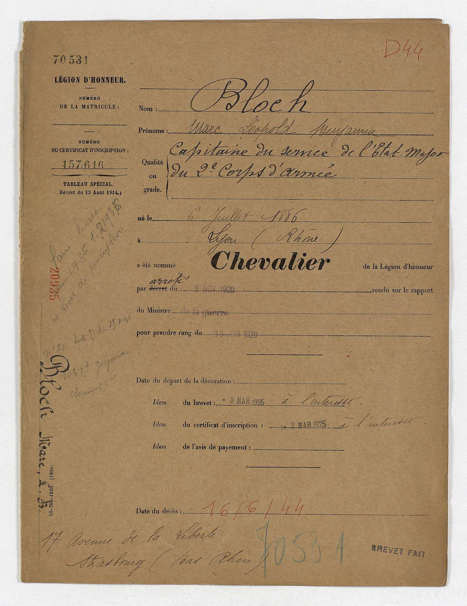 A scan of the French Department of War's official bestowing of the Chevalier de Legion d'Honneur on Marc Bloch, 8 November 1920